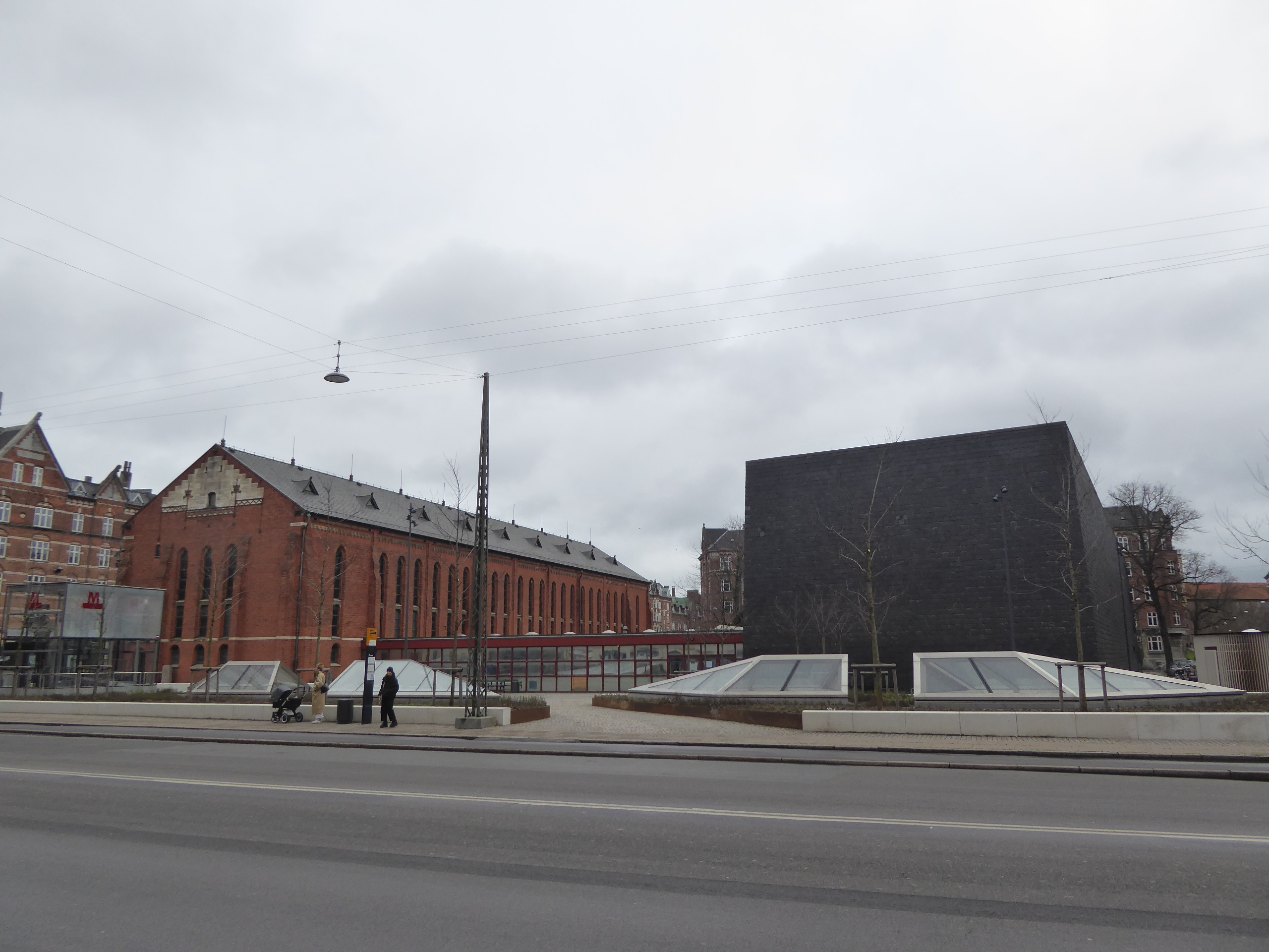 The former regional archive of Sjælland, Lolland, Falster and Bornholm at Nuuks Plads in Nørrebro in Copenhagen. In 2012 it was merged with the national archives. The metro station Nuuks Plads Station was opened in front of it in 2019.